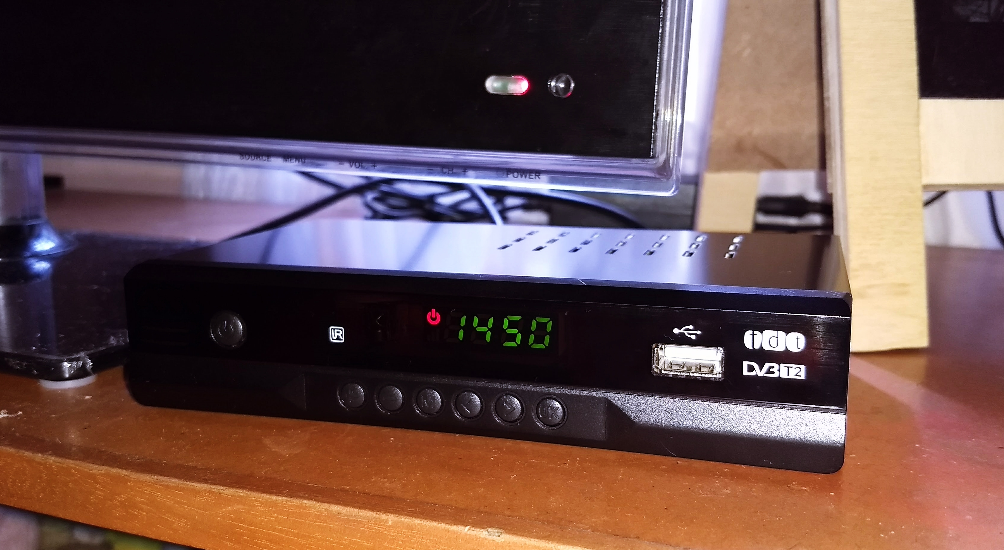 DTT decoder popular and native in Colombia with DVB-T2 standard installed in my room and operation receiving its respective digital signal DVB-T2 in Colombia